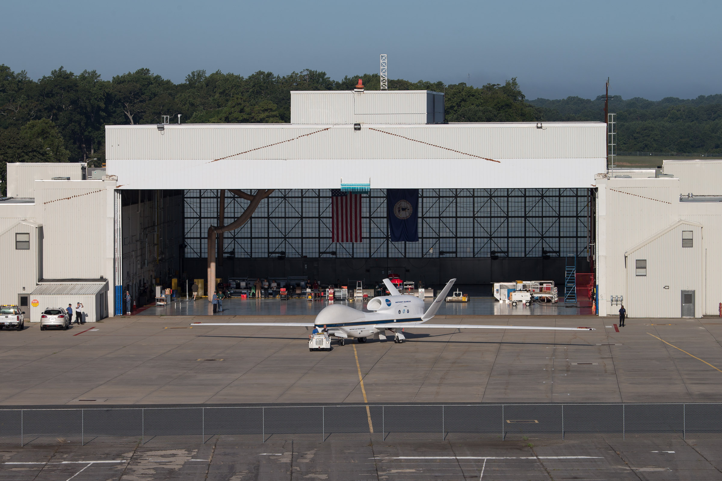 The NASA Global Hawk 872 lands at 7:43 a.m. EDT, August 27, at the Wallops Flight Facility in Virginia following a 22-hour transit flight from its home base at the Armstrong Flight Research Center in California. During the transit, the science instruments on the aircraft provided researchers data on Hurricane Cristobal in the Atlantic Ocean of the southeastern coast of the United States. The aircraft is one of two NASA Global Hawks supporting the Hurricane and Severe Storm Sentinel (HS3) mission through September.